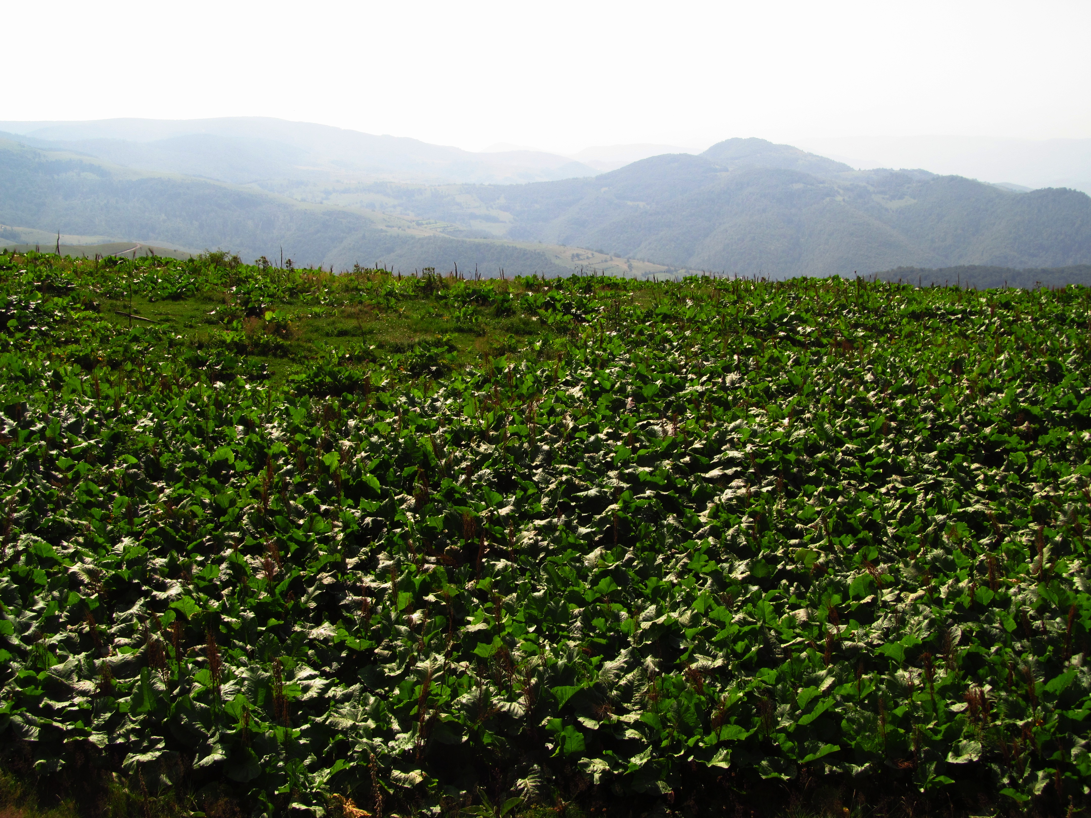 Monk's-rhubarb, Munk's rhubarb or Alpine dock